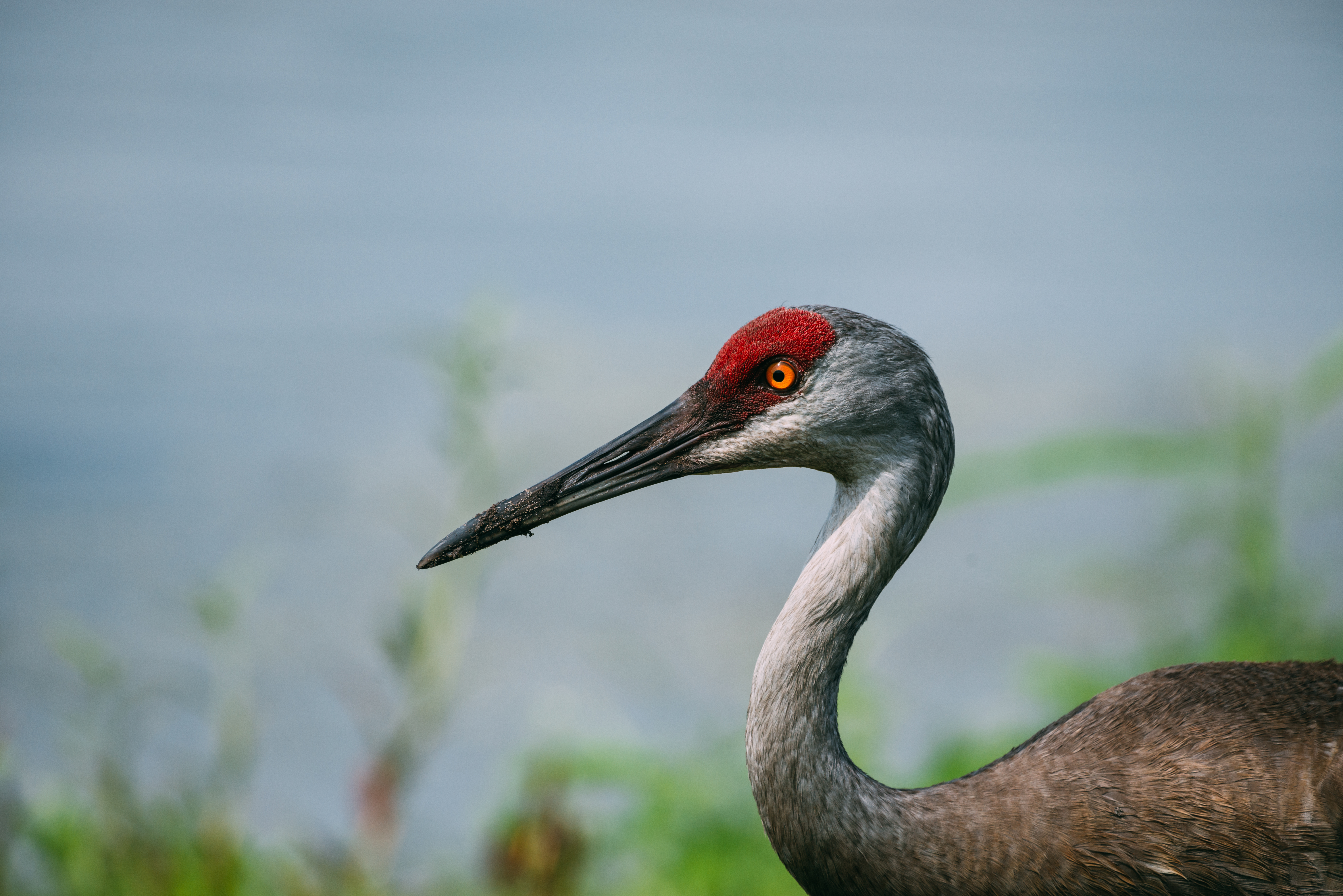 Florida sandhill crane